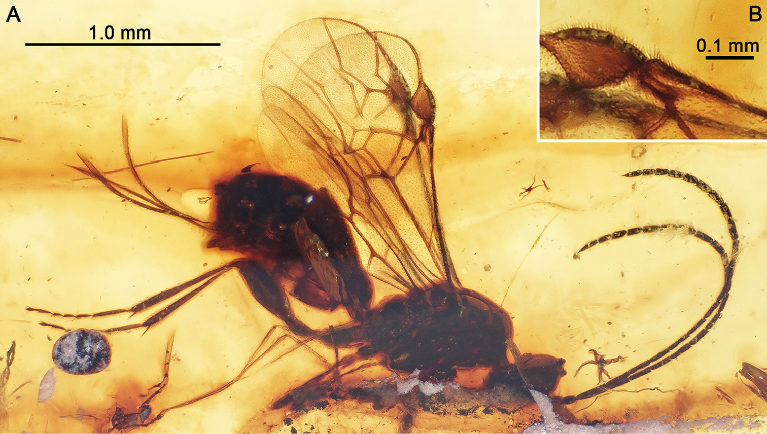 Photographs of holotype female (NIGP 164784) of Seneciobracon novalatus Engel & Huang, in mid-Cretaceous Burmese amber from northern Myanmar. A Holotype in right lateral view as preserved B Inset detail of pterostigmal region of forewing, depicting small costal cell.